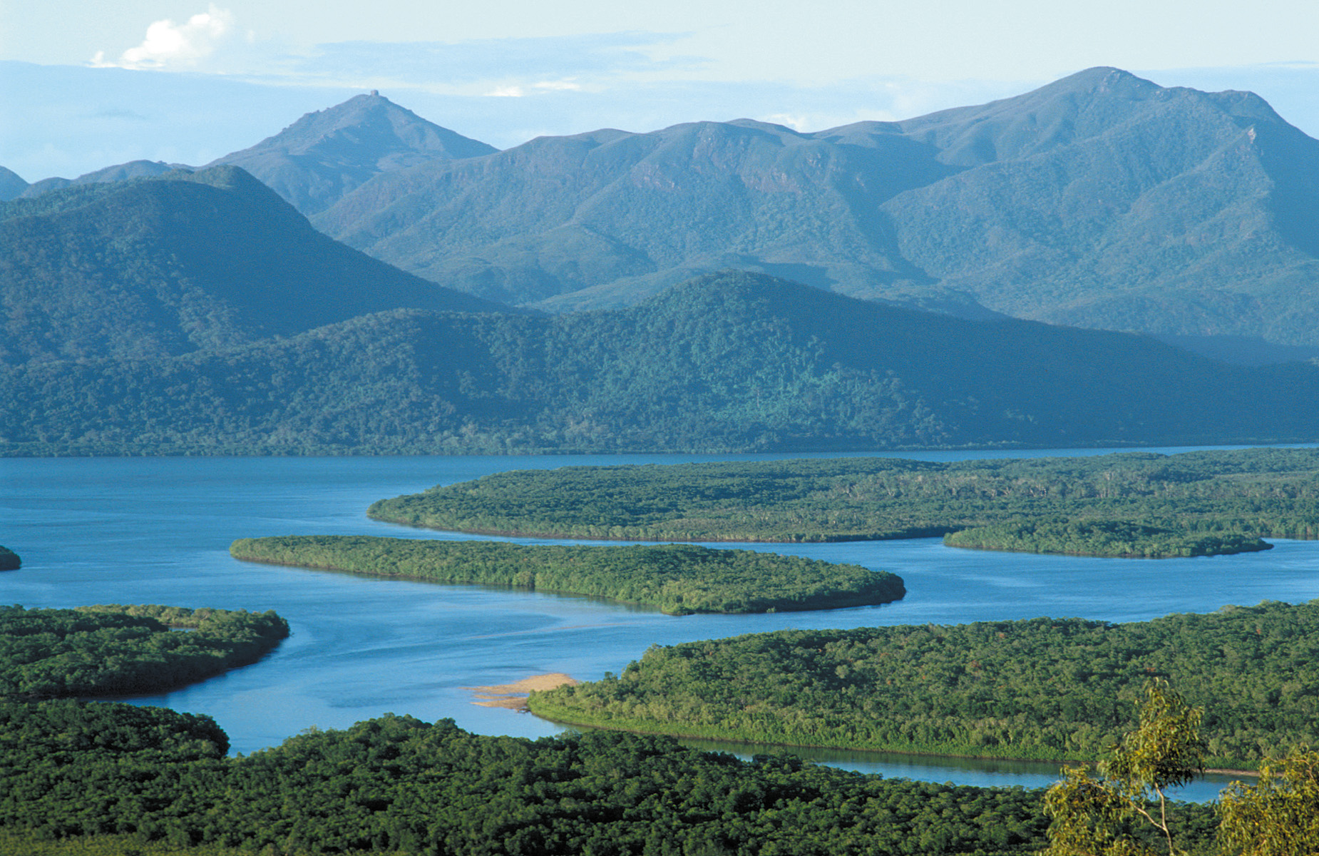 Hinchinbrook Island, channel and mangroves, as seen from lookout near Cardwell, QLD.